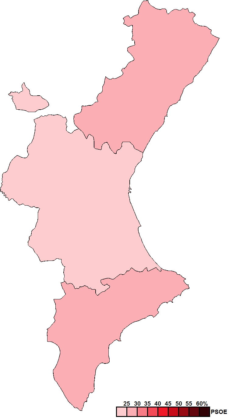 Provincial results for the 2019 Valencian regional election.